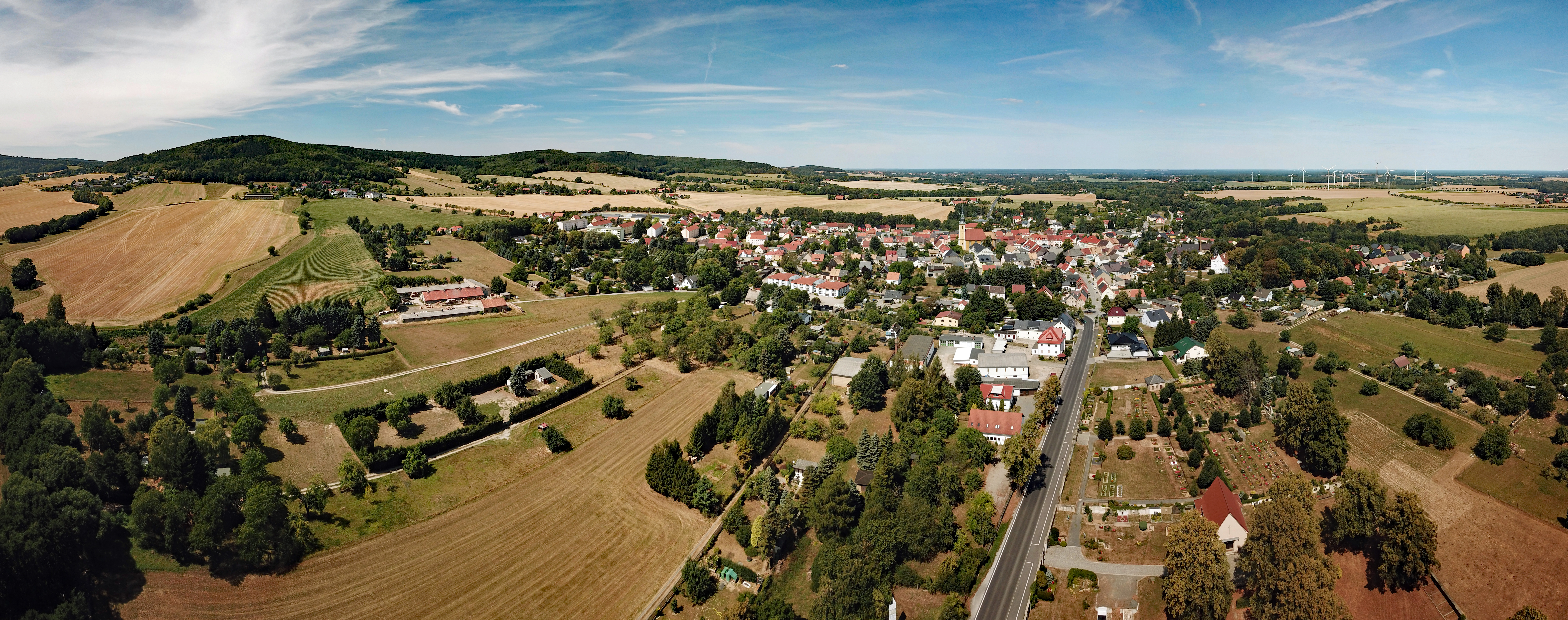 Elstra (Saxony, Germany) Hornjoserbsce: Powětrowy wobraz Halštrowa